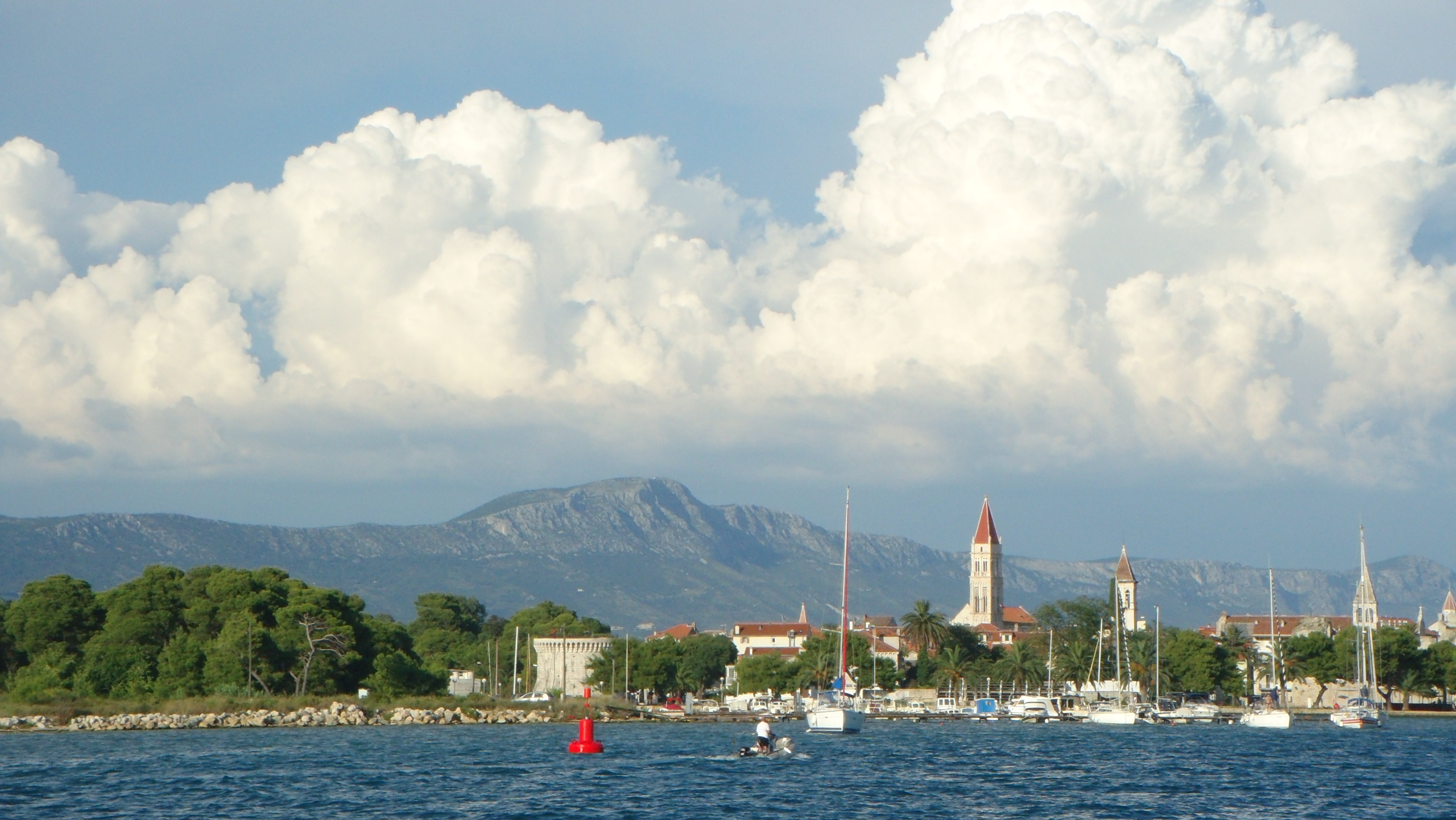 Trogir, Croatia